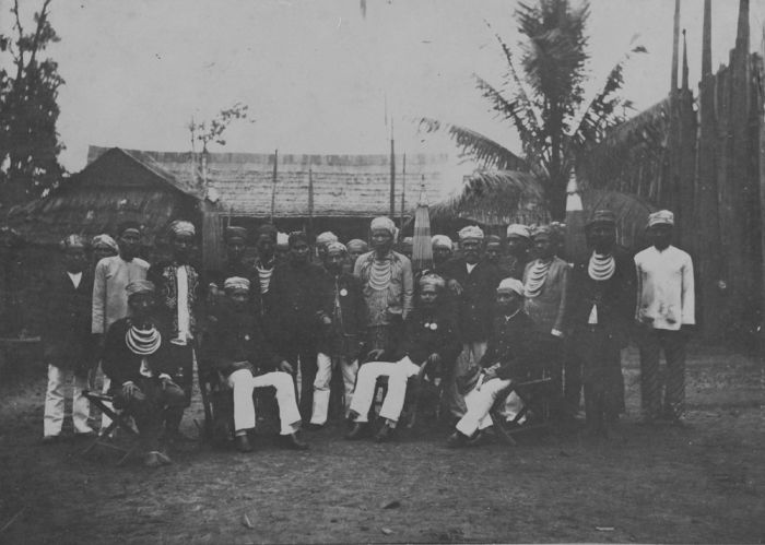 Groupportrait of district headsmen and other headsmen of the Dayak countries of East-Borneo in Tumbanganoi.